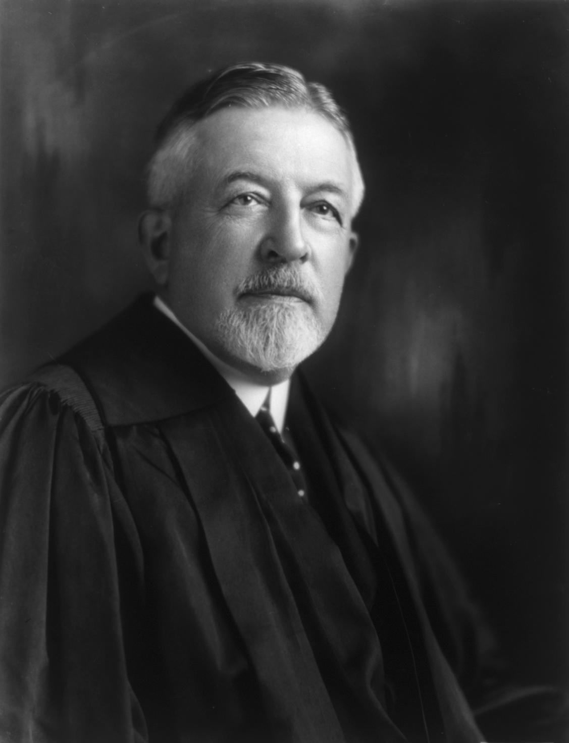 Justice Edward Terry Sanford, 1865-1930, head-and-shoulders portrait, facing right